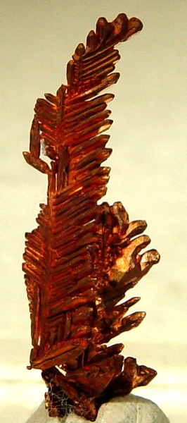 Copper Locality: Itauz Mine, Zhezqazghan Oblysy (Dzezkazgan Oblast'; Dzhezkazgan Oblast'; Djezkazgan Oblast'; Jezkazgan Oblast'), Kazakhstan (Locality at ) Sad to say, no more of these at the Denver show, as mining them has stopped, at least for now. This copper "feather" is crystallized from top to bottom and comes from the stash we bought at Tucson. One day, these will be remembered as true classics for the decade, mark my words. 3 x 1 x 0.3 m